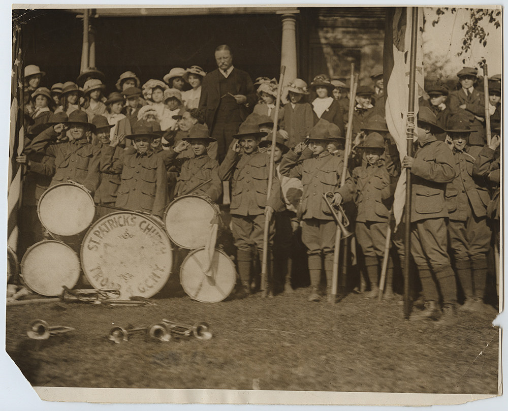 Title: Colonel Theodore Roosevelt Has His Own Preparedness Parade at Oyster Bay. Creator: Underwood & Underwood Date: May 13, 1916 Part of: Doris A. and Lawrence H. Budner Theodore Roosevelt Photograph Collection Place: Oyster Bay, Nassau County, New York Description: On May 13, 1916, Former President Theodore Roosevelt held a 'readiness' celebration at his home in Oyster Bay, New York. The celebration included two detachments of Boy Scouts and members from St. Patrick's Church in Garden City, New York. The celebration coincided with Mrs. Roosevelt's appearance at a preparedness parade in Manhattan. Physical Description: 1 photographic print: gelatin silver; 20 x 24 cm File: ag1984_0324_18_14r_parade_opt.jpg Rights: Please cite Southern Methodist University, Central University Libraries, DeGolyer Library when using this image file. A high-quality version of this file may be obtained for a fee by contacting . For more information and to view the image in high resolution, see: View the Doris A. and Lawrence H. Budner Collection on Theodore Roosevelt collection